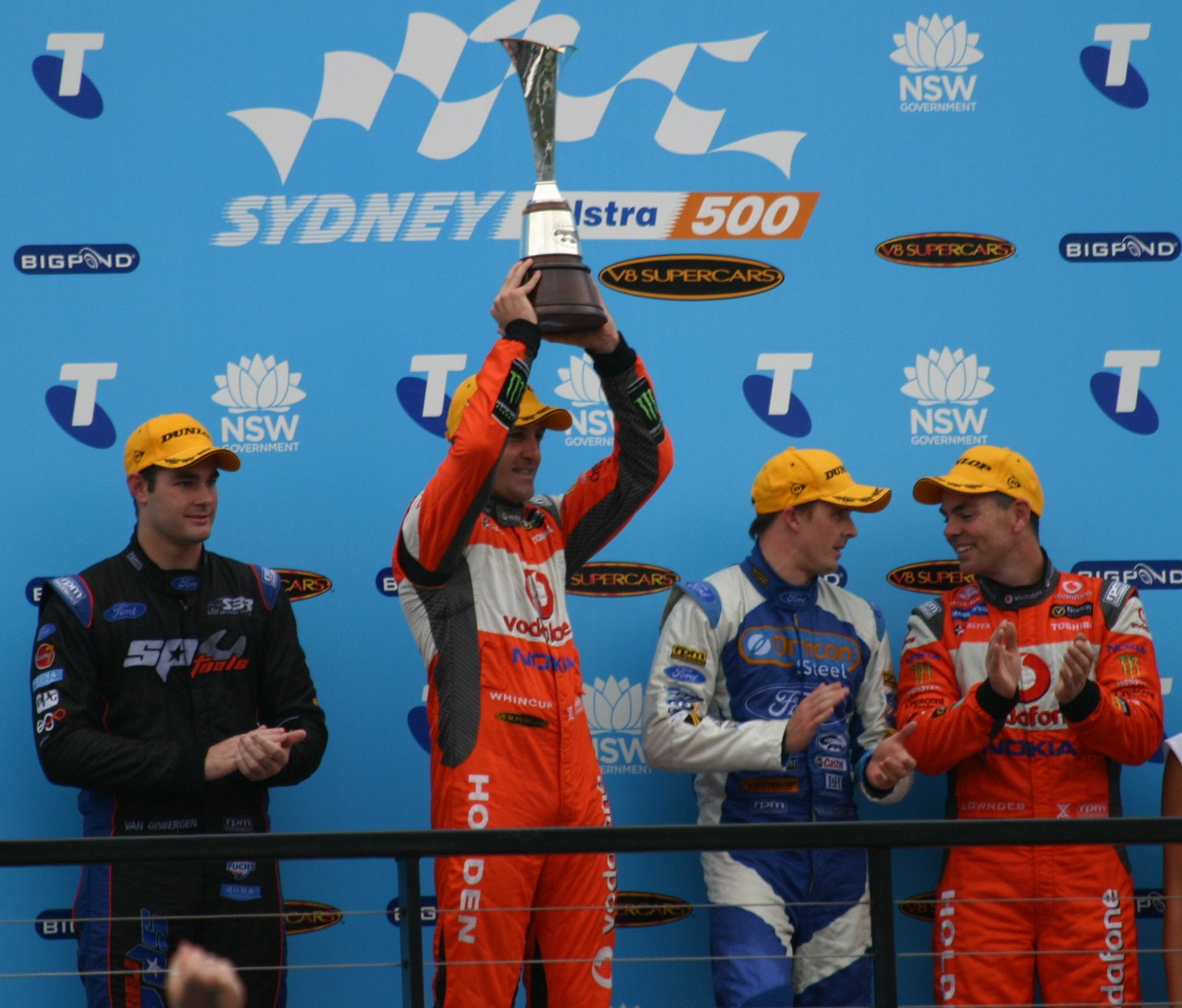 Taken at the 2011 Sydney Telstra 500.